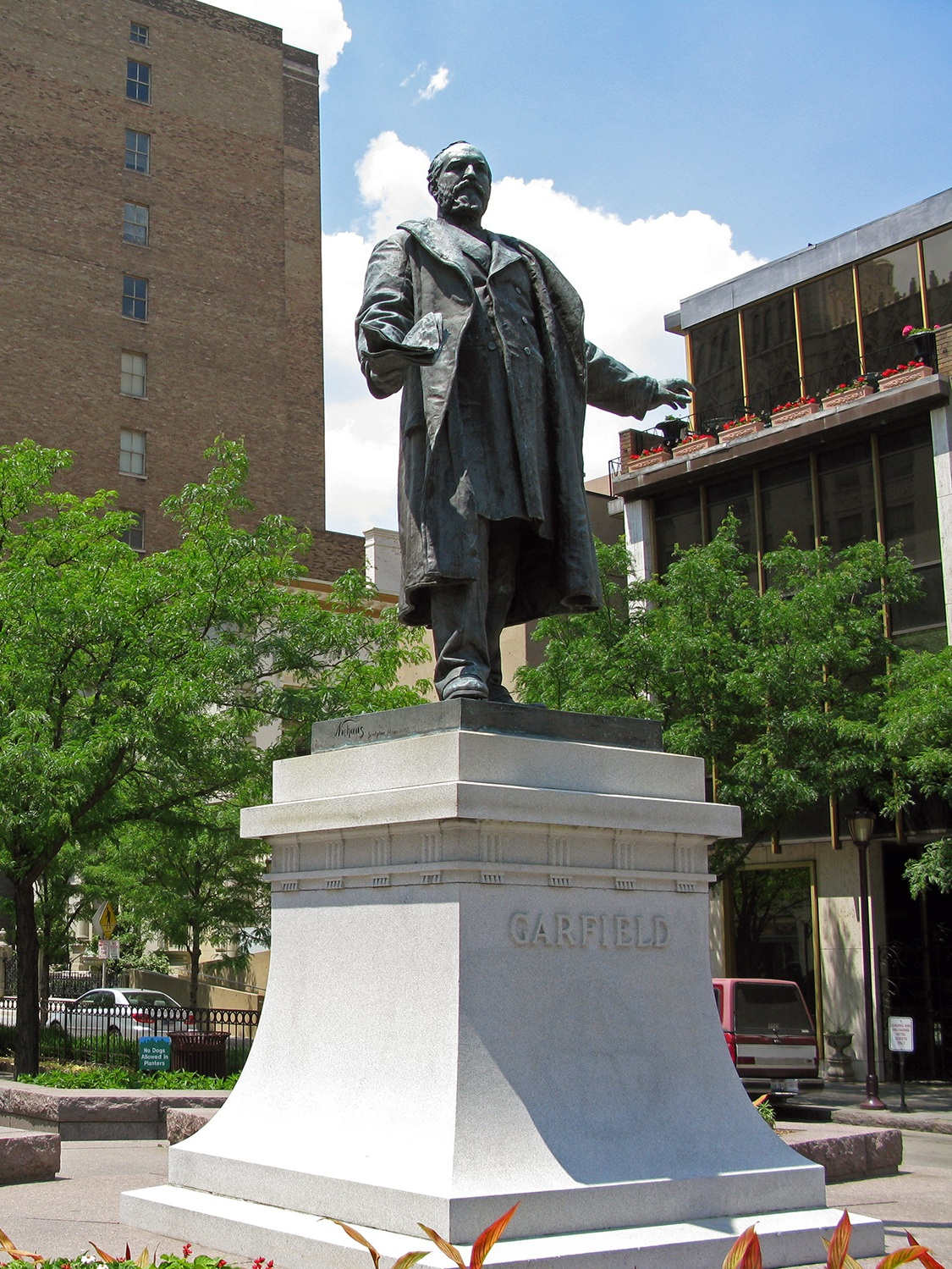 James A. Garfield statue at Piatt Park in Downtown Cincinnati, Ohio.